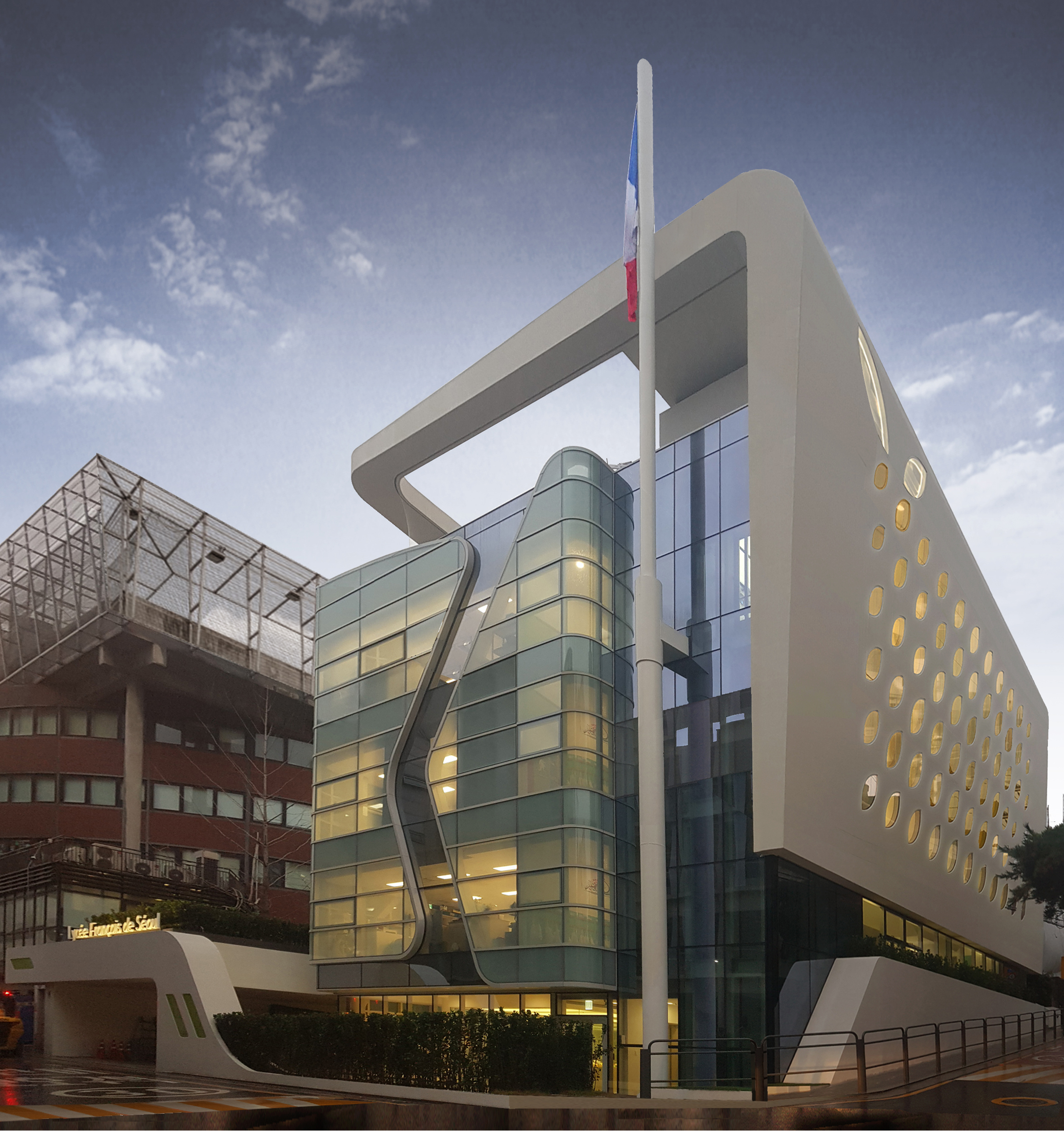 the main bulding from outside